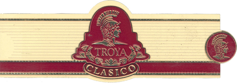 Hi-res scan of cigar band (Troya Clasico)